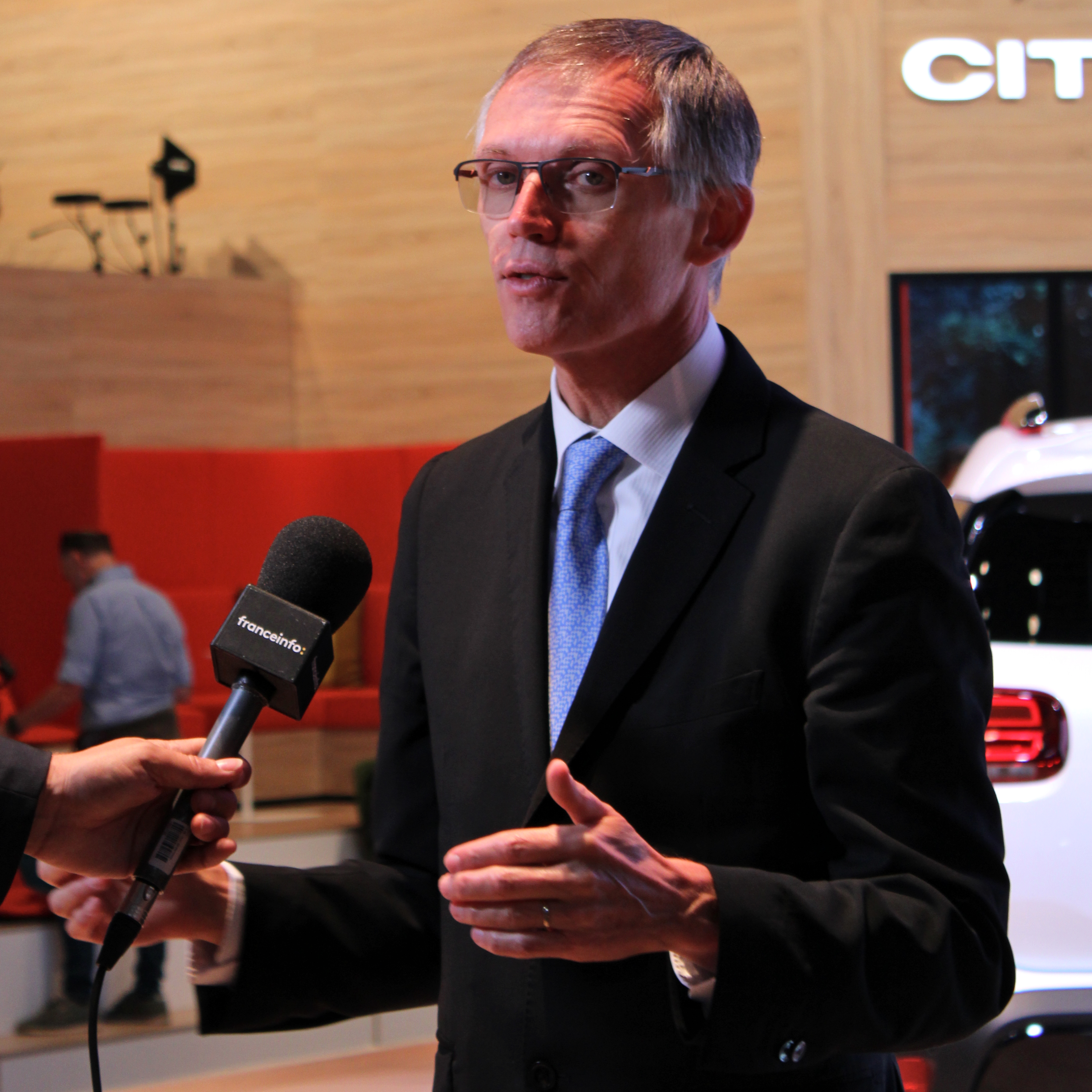 Carlos Tavares at Paris Motor Show 2018